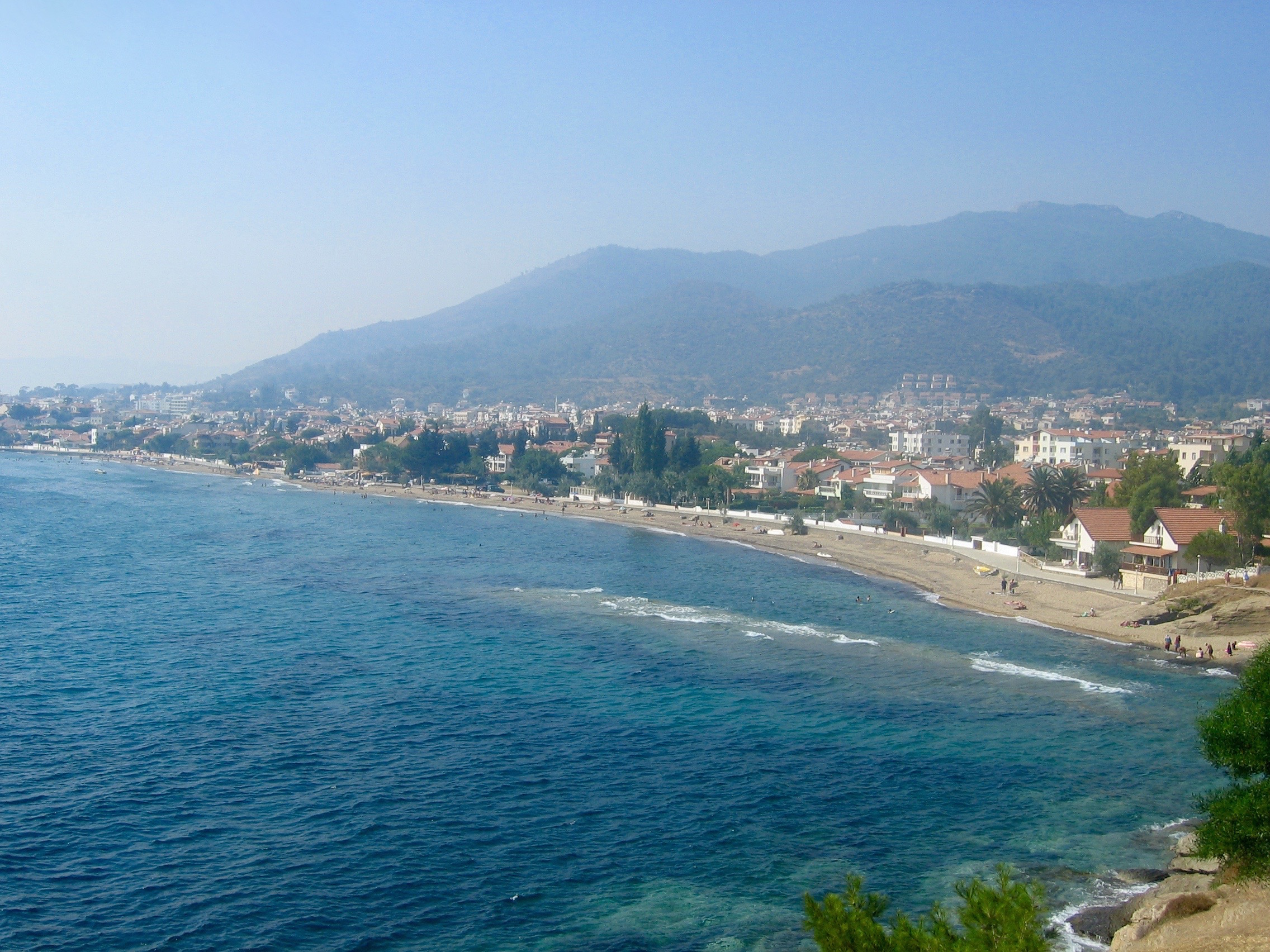 A view of the town of Özdere